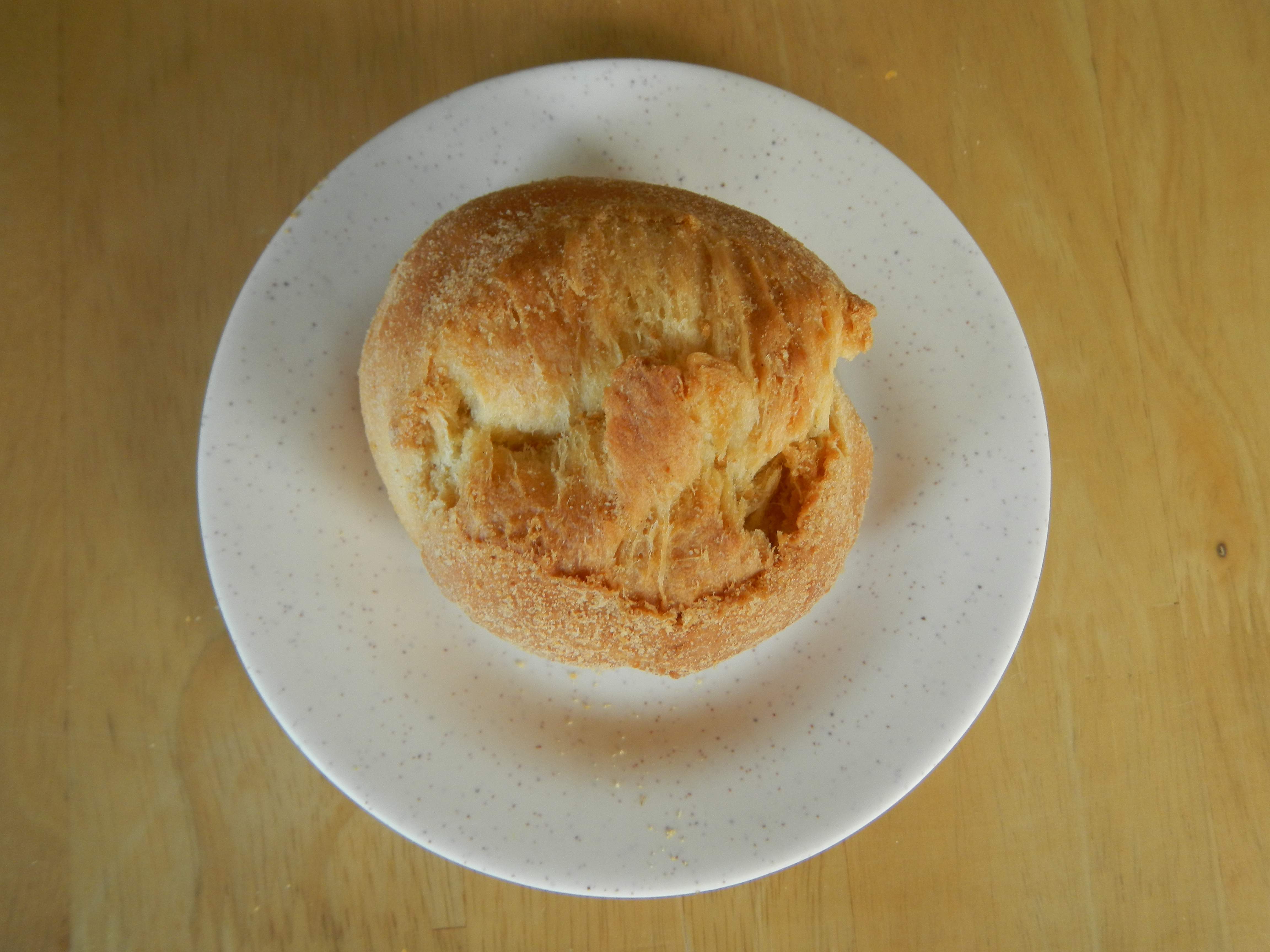 Putok (Pandesal [1], Lin-Mers, Baliuag, Bulacan) [2] Made from monay dough, the putok has a crown on top instead of a split. Its texture ranges from semi-soft to rock hard. The top is brushed with a milk glaze then sprinkled with sugar. The ridges acquire a golden brown color in the hot oven while the rest of its body remains pale to pale brown. There are some panaderias, however, that have put their own spin on the putok, placing indentations on top of the bread instead of the traditional crown-like top. Origin: The name refers to the characteristic split on top of the bread. Interesting crumbs: The putok is more compact and dense than the monay because of shorter proofing time. To make the traditional ridges, the baker clips the top with a scissor or a sharp knife, forming an "x" which later splits and expands during baking.